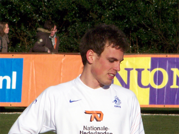 Wout Brama